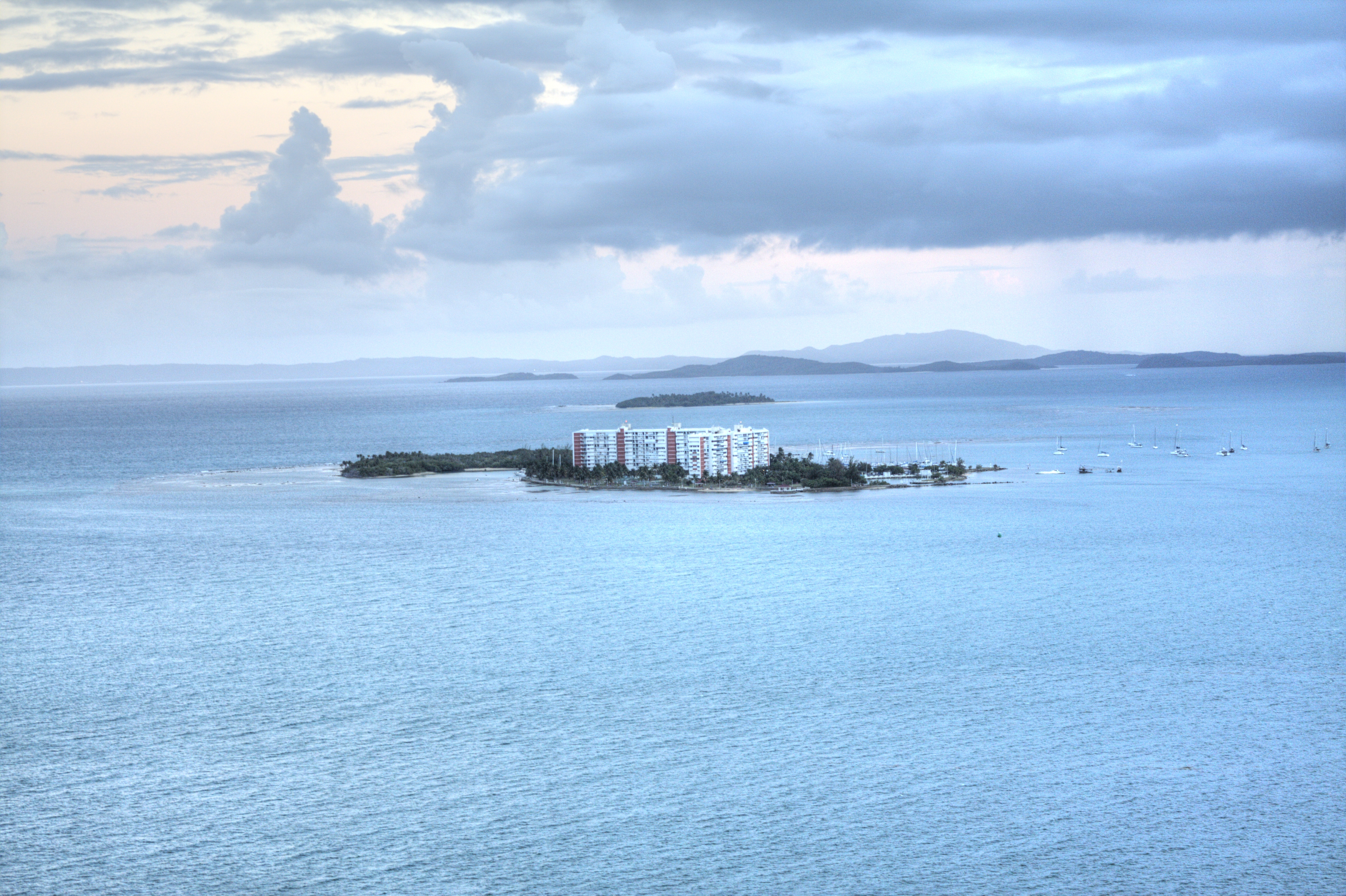 Island off the coast of Fajardo, Puerto Rico